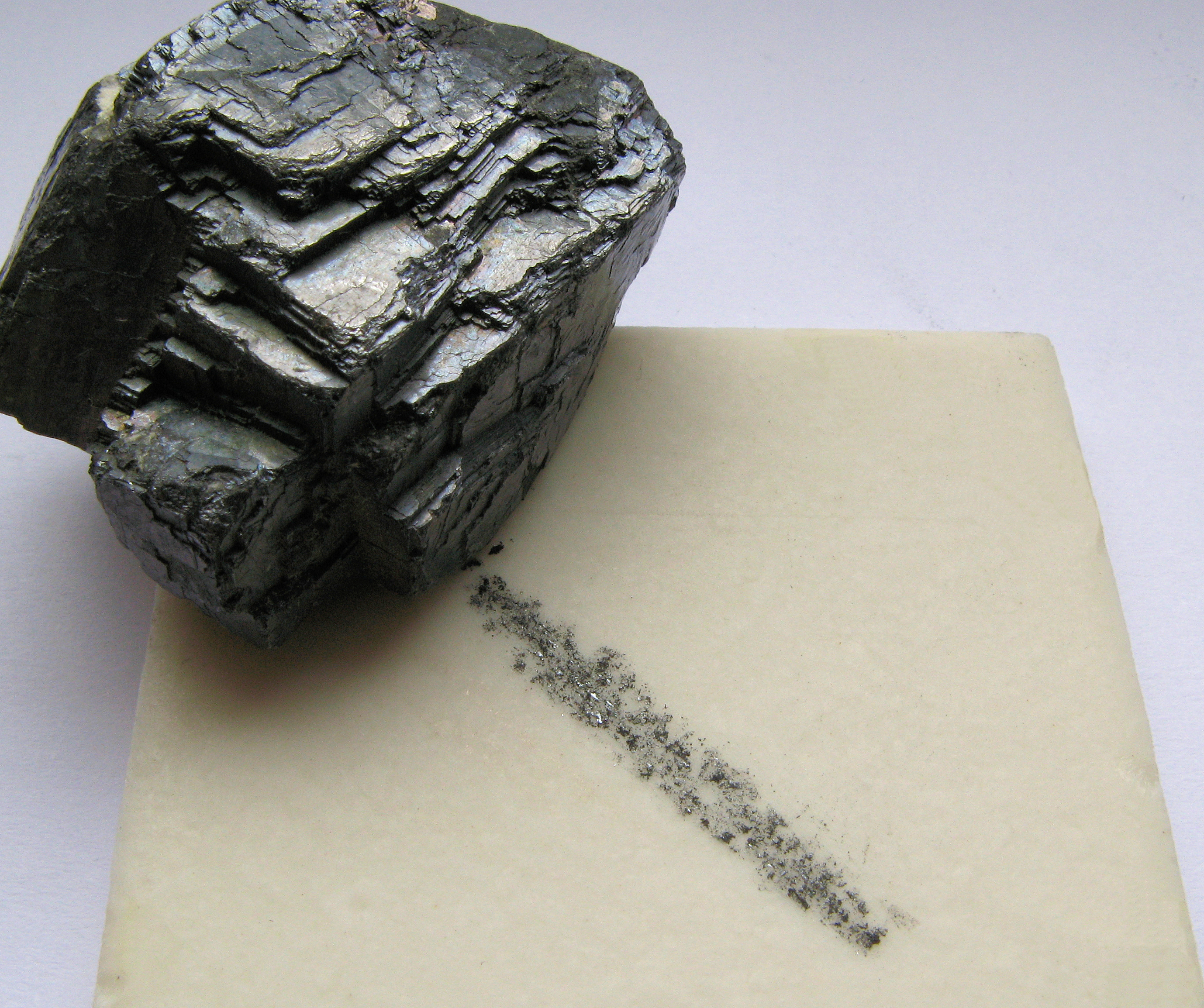 Streak color of Galena